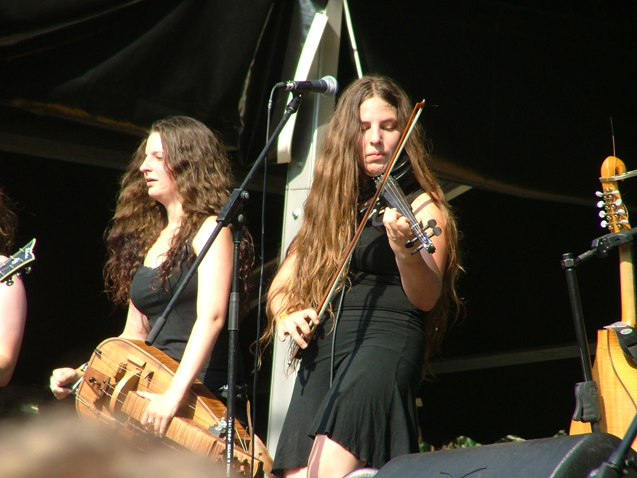 Swiss folk metal band Eluveitie at the Metalcamp in Tolmin